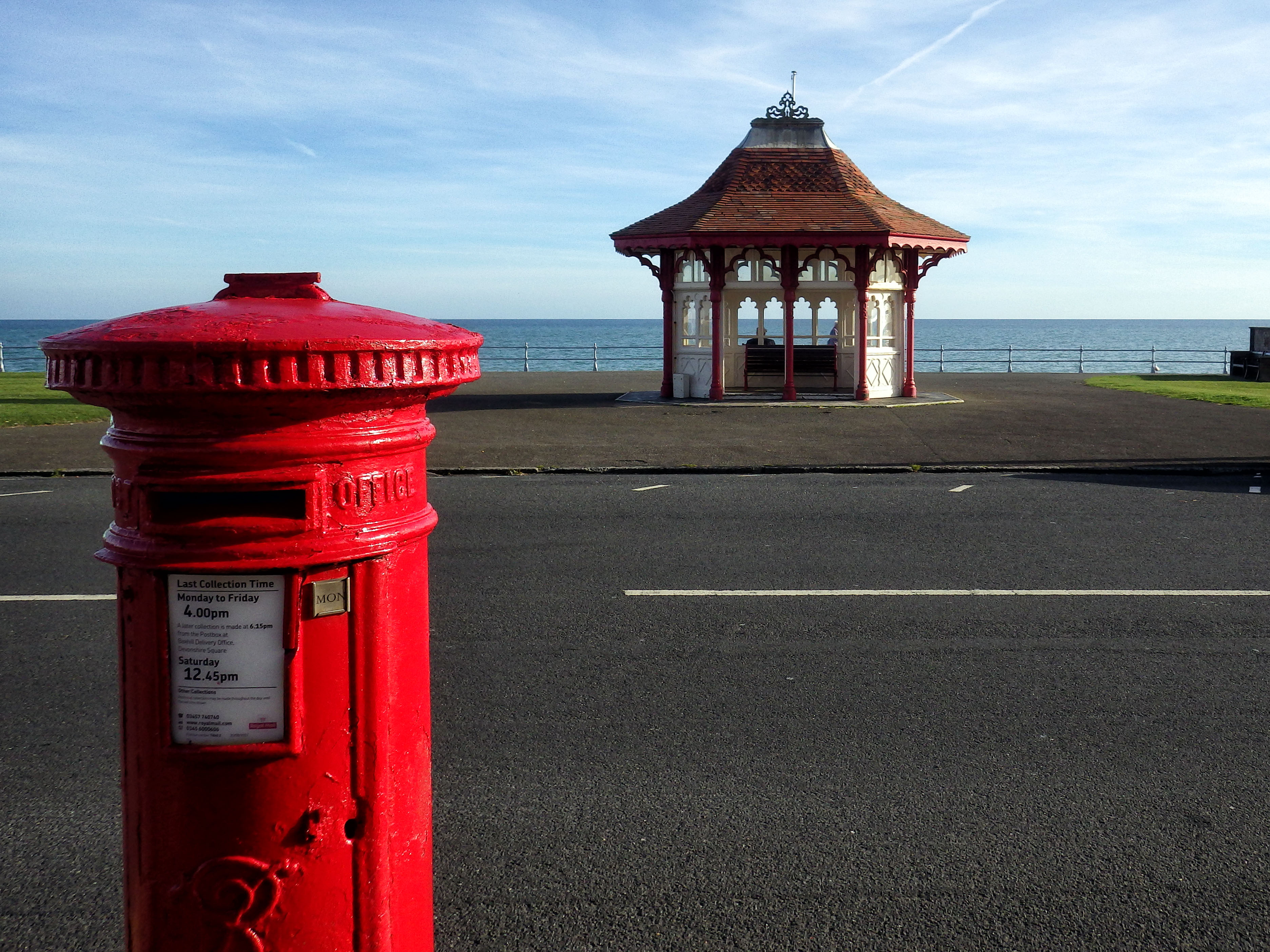 Queen Victoria cypher, with 1898 Grade II listed shelter.